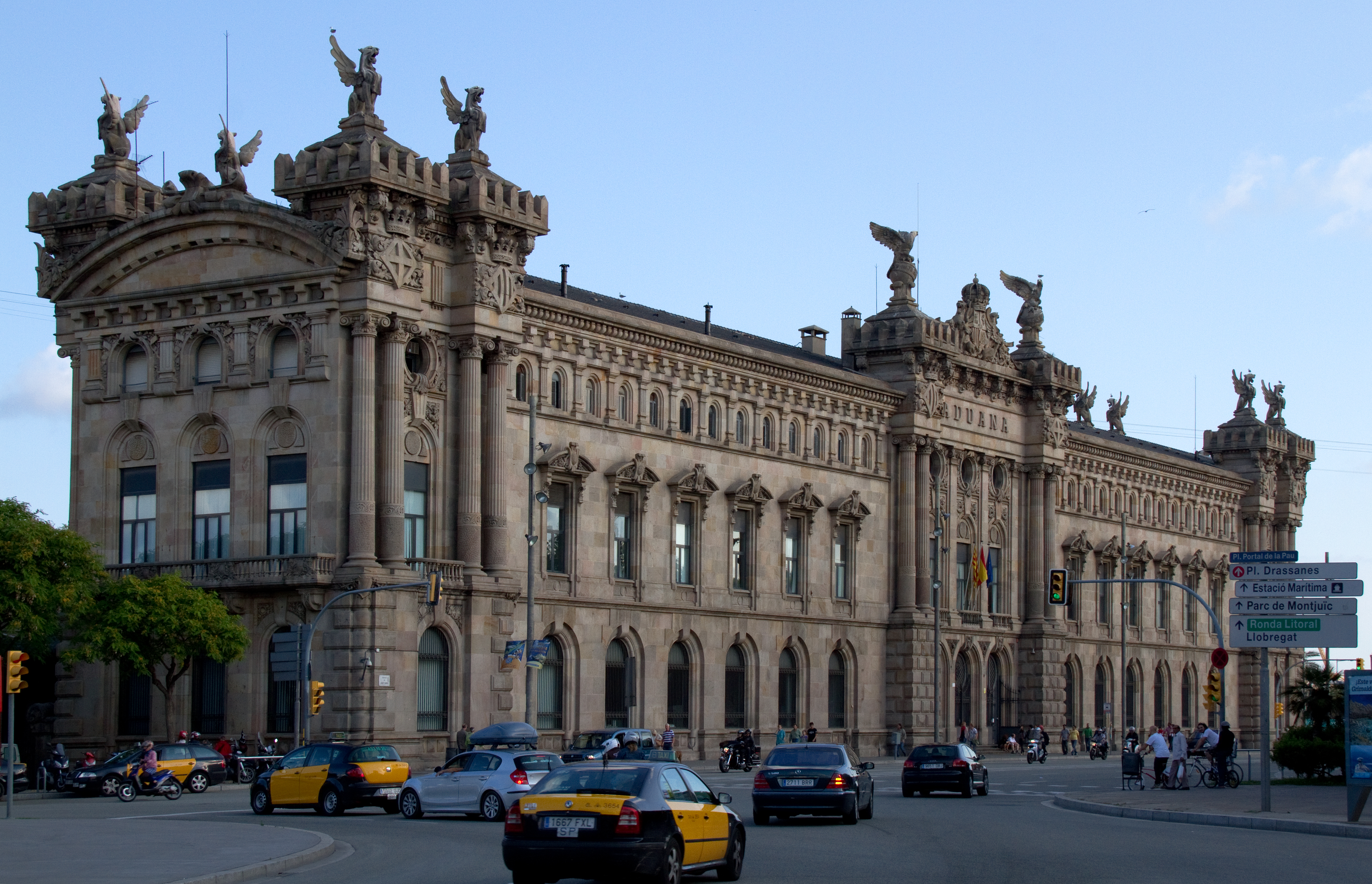 Barcelona Old Customs House